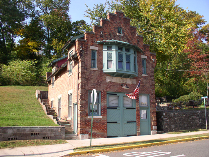 Old Firehouse located in Carlstadt